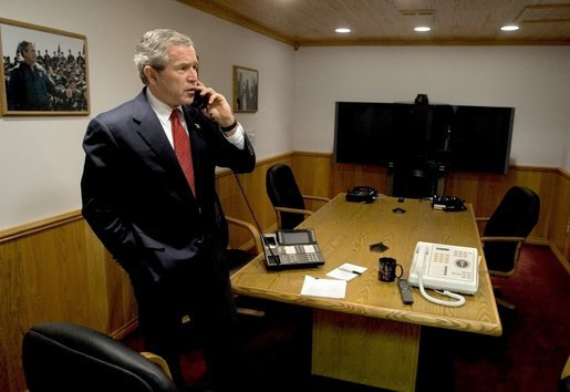 President George W. Bush speaks with Sri Lankan President Chandrika Kumaratunga during a phone call in Crawford, Texas, Wednesday, Dec. 29, 2004.